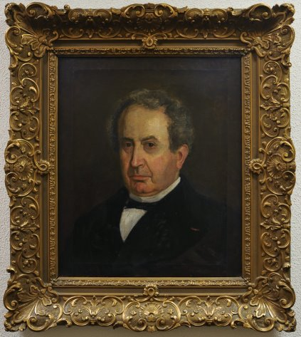 Marinus Campbell (1819-1890). Painting by Isaac Israëls (1865-1934)